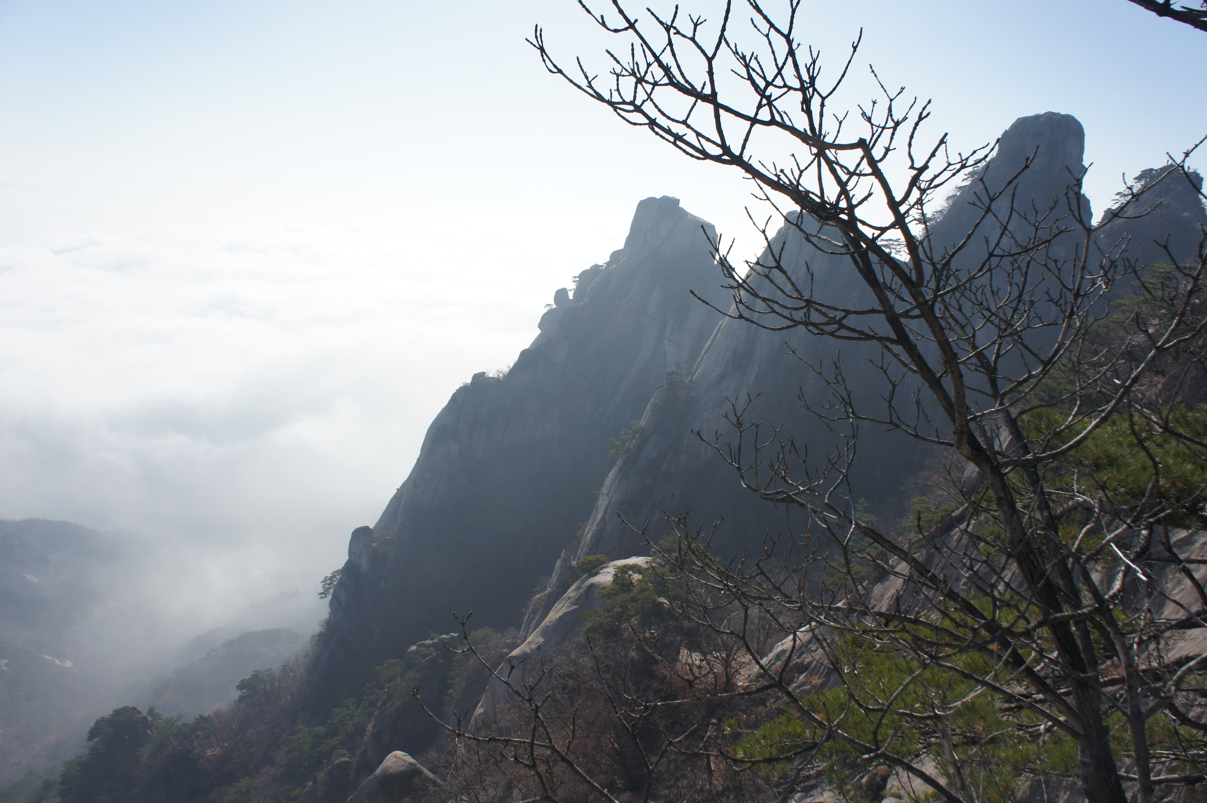 Mount Dobongsan peaks Seoninbong (708m), Manjangbong (718m), Jaunbong (740m) and Shinseondae (730m) taken from trail leading to summit.